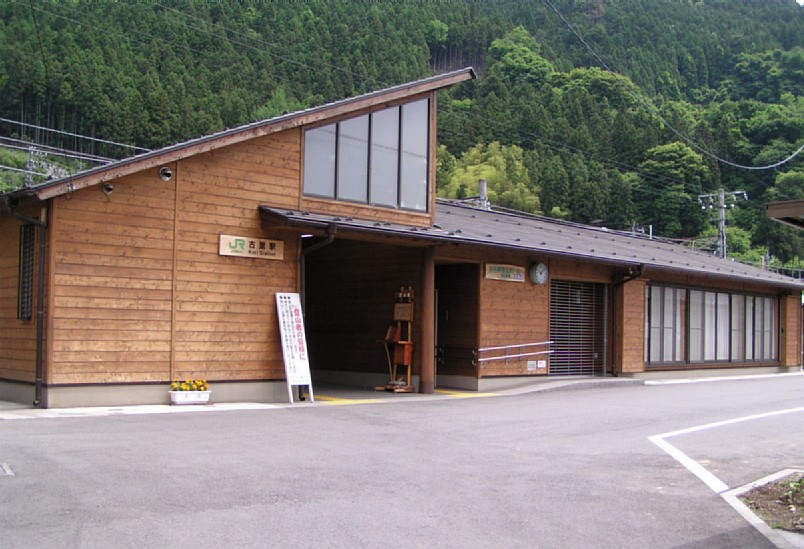 Souh Exit of Kori Station, Ome Line